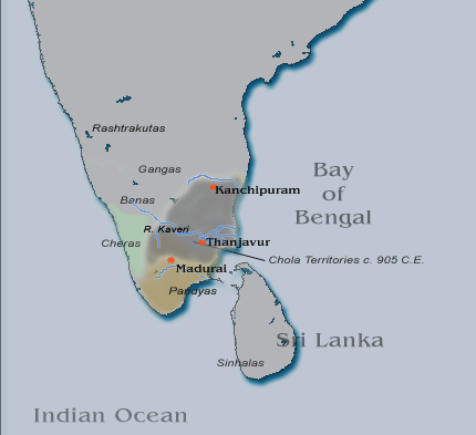 The Extent of Chola territories at the end of Parantaka I's reign.